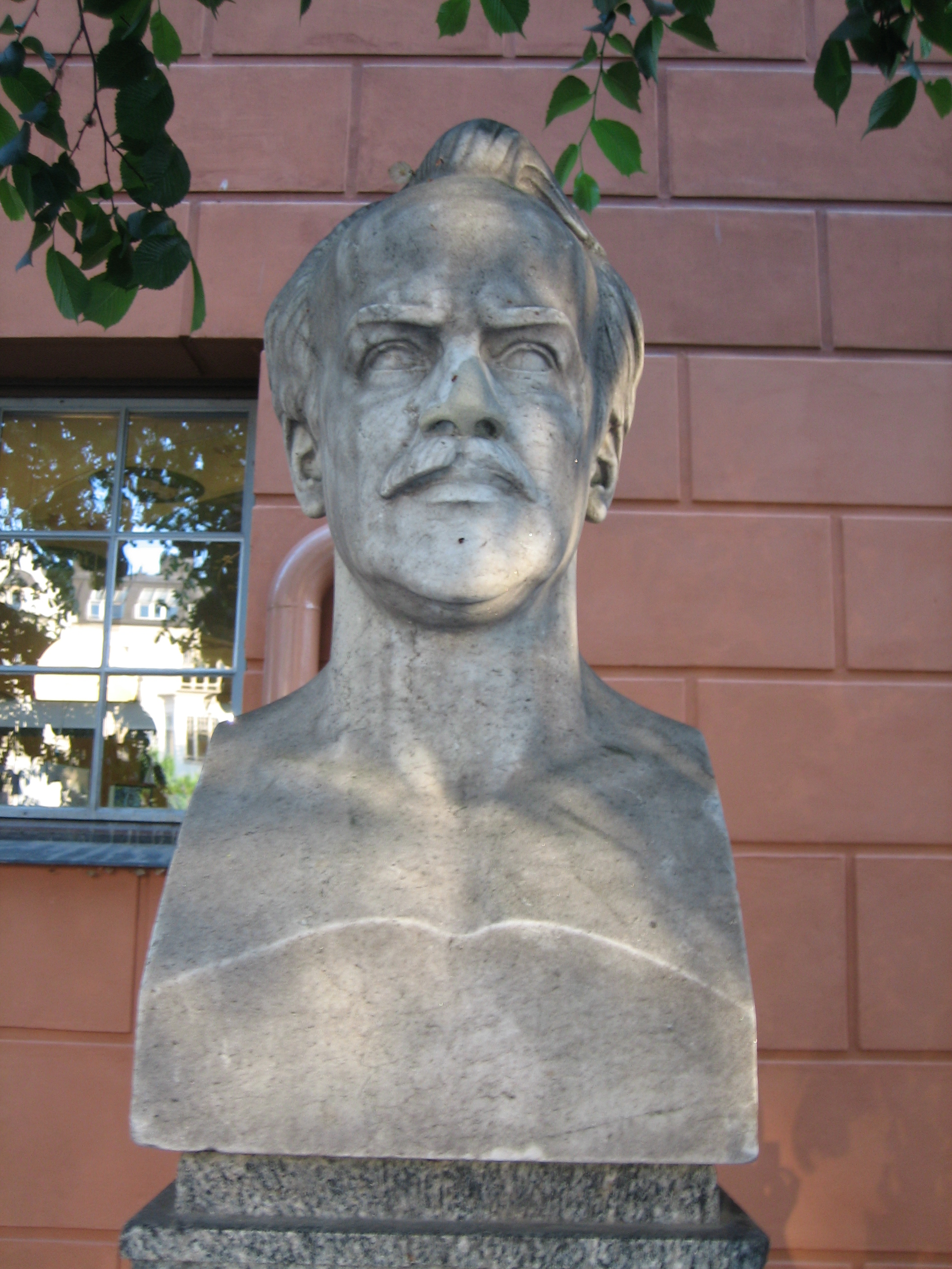 Bust of Knut Kjellberg (1867-1921), swedish doctor, professor and politician. Bust is placed outside Stockholm public library and was made by Carl Eldh.